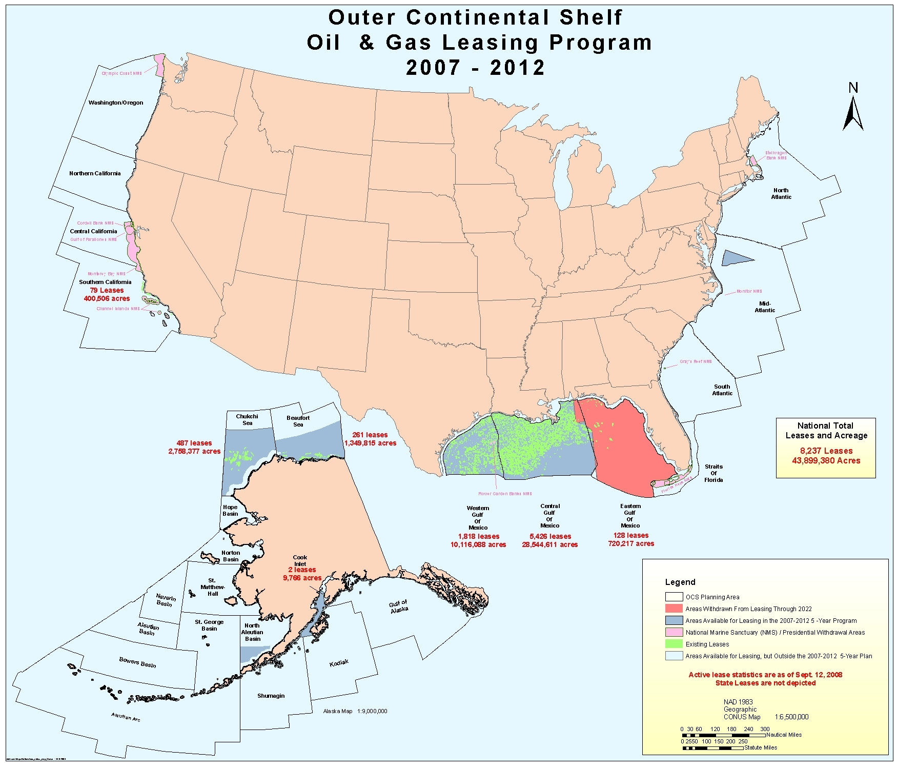 Map of status of offshore US federal oil and gas leases